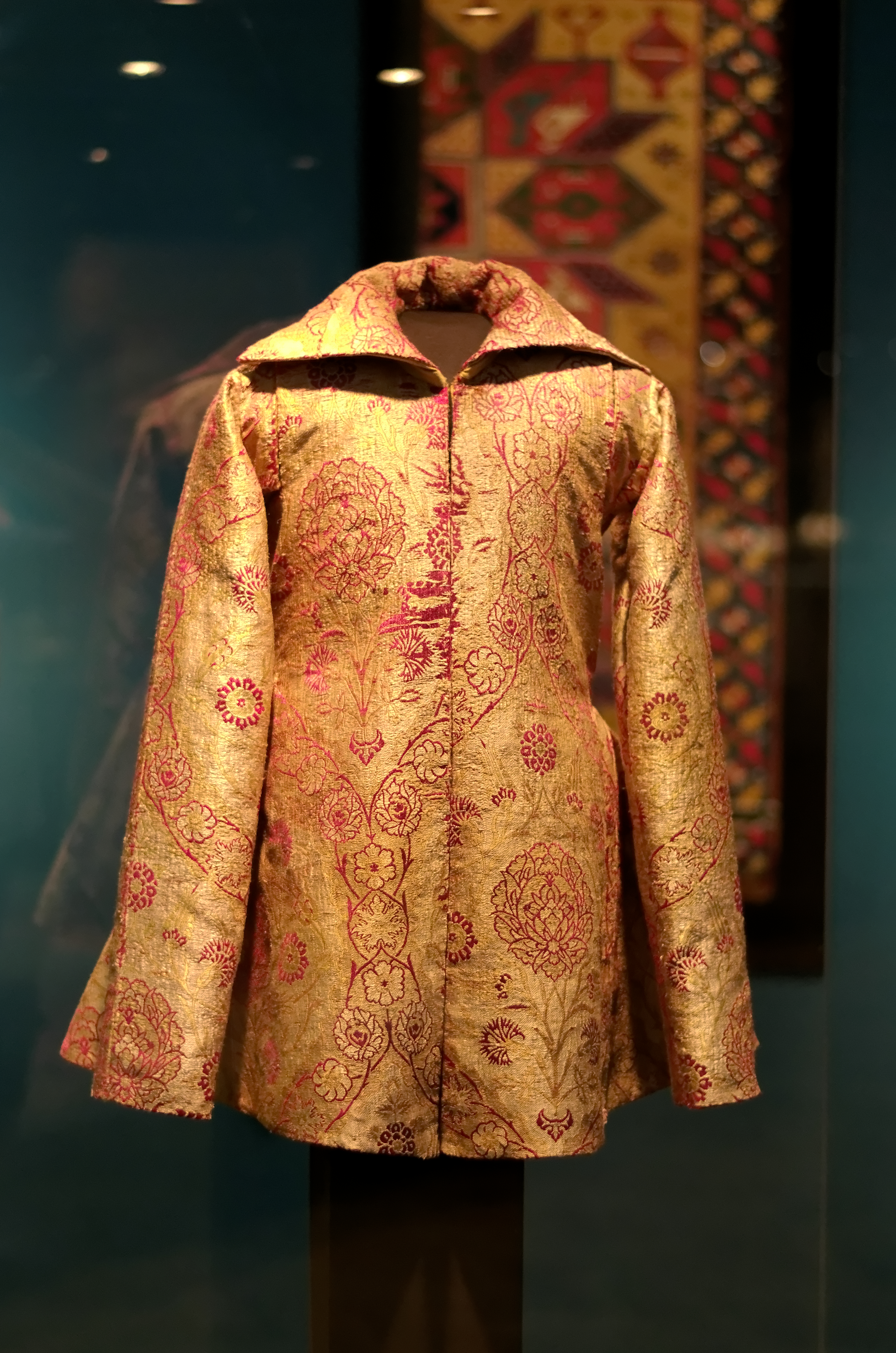 Upper coat (mente). Silk fabric: Turkey (Ottoman dynasty, 1299-1922) cut and sewn in Hungary, second half of 16th century. Silk lampas. Esterházy treasury inv no 64-40